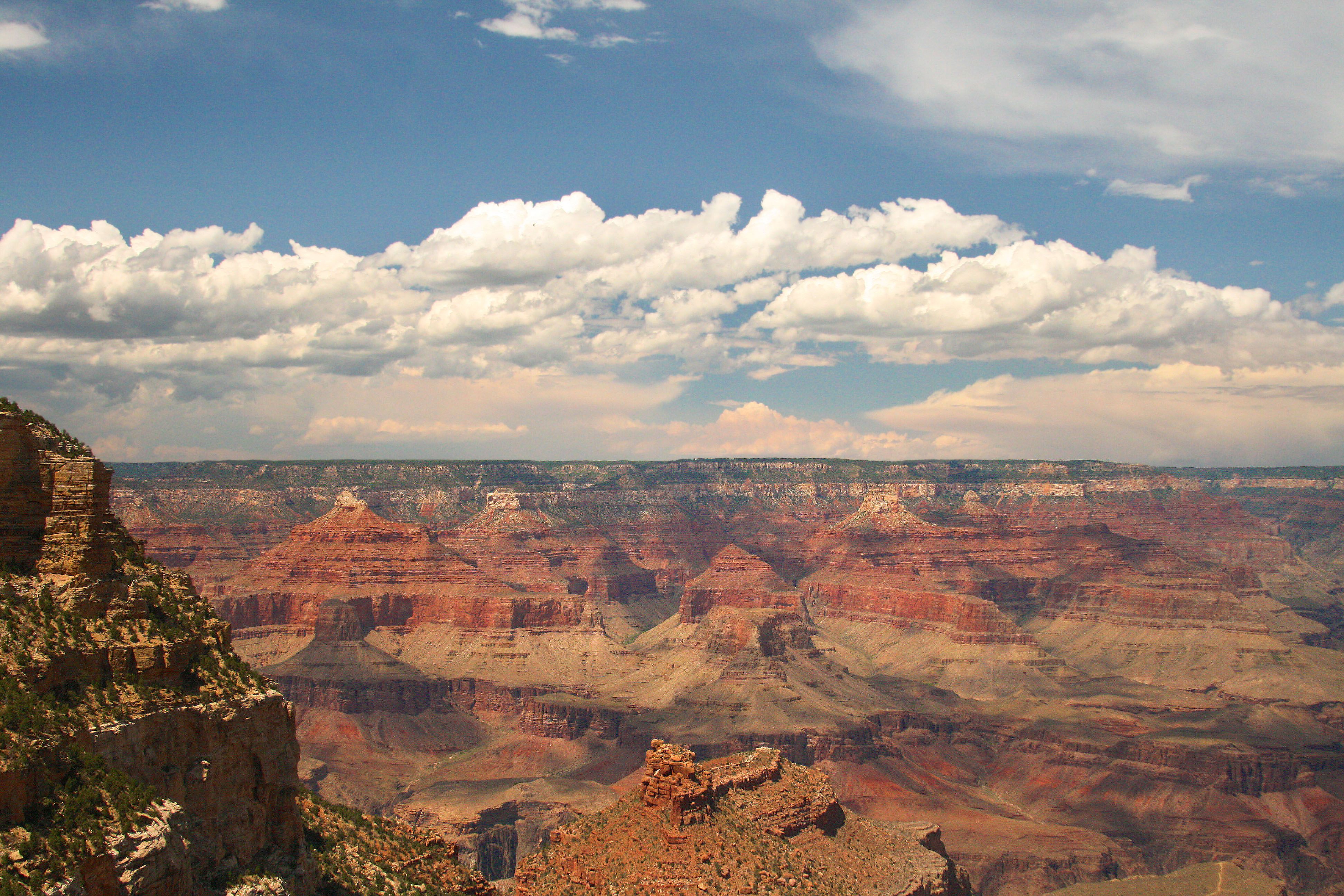 Grand Canyon